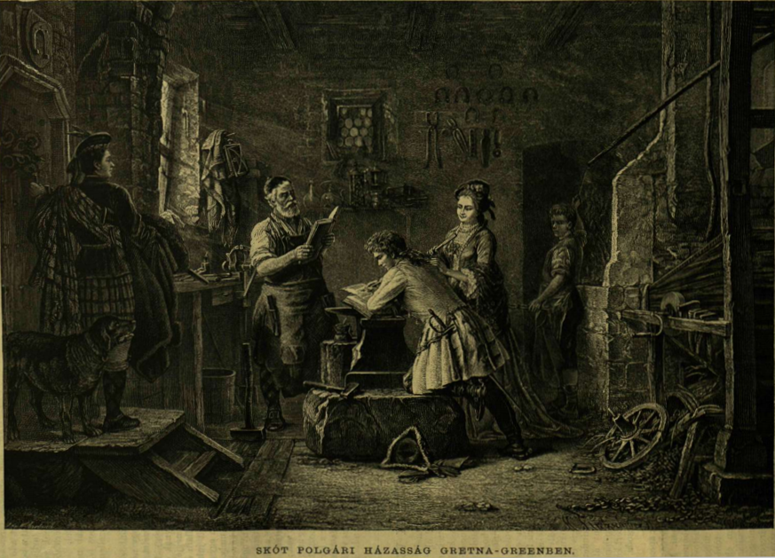 Marriage service in Gretna Green